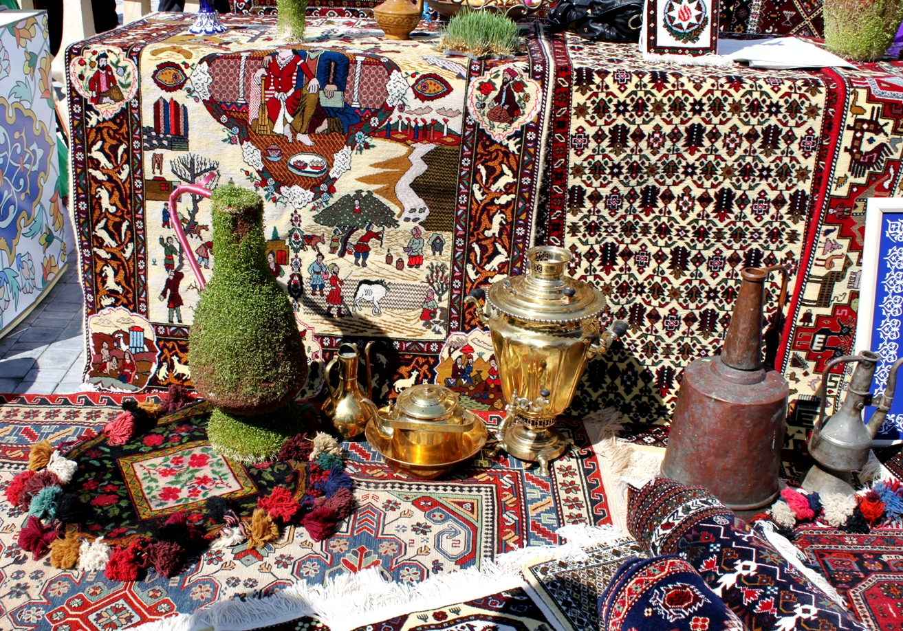 Celebration Novruz in Baku 01